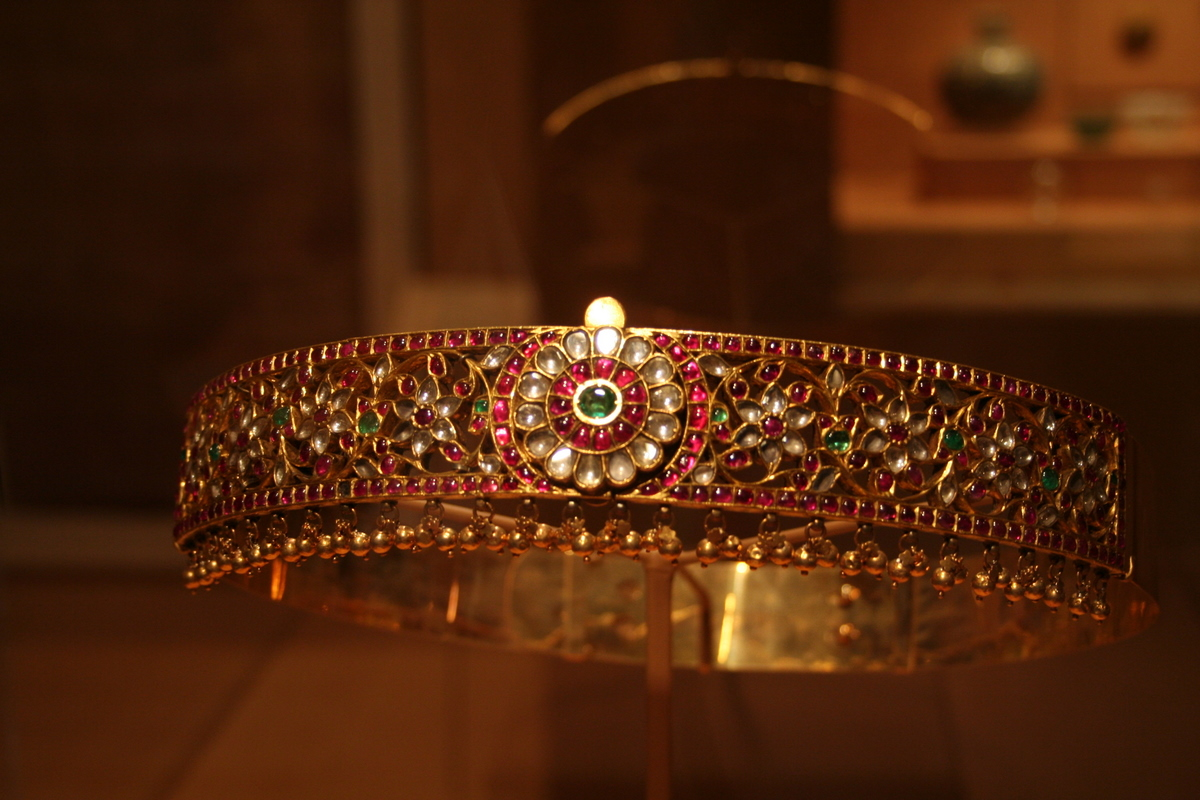 Gold belt (Tamil: Oddiyanam) India, Tamil Nadu, 19th century Gold, diamonds, rubies, emeralds Gift of Gulab Watumull, in celebration of their 50th Wedding Anniversary, 2003 (12392.1) Wikipedia Loves Art at the Honolulu Academy of Arts This photo of item # 12392.1 at the Honolulu Academy of Arts was contributed under the team name "Department_of_Trife" as part of the Wikipedia Loves Art project in February 2009. Honolulu Academy of Arts The original photograph on Flickr was taken by mandleicious—please add a comment to the original Flickr page whenever a use has been made on Wikipedia or another project. Project galleries on Flickr: this institution, this team